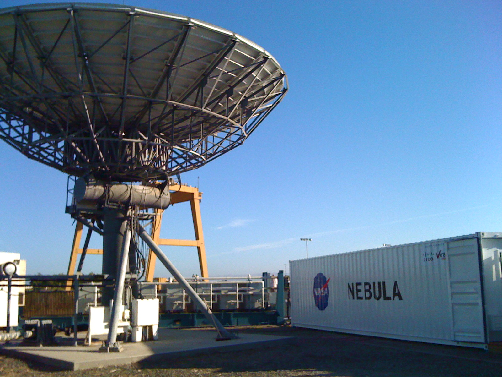 This is a picture of the Nebula cloud computing container located at NASA Ames Research Center.